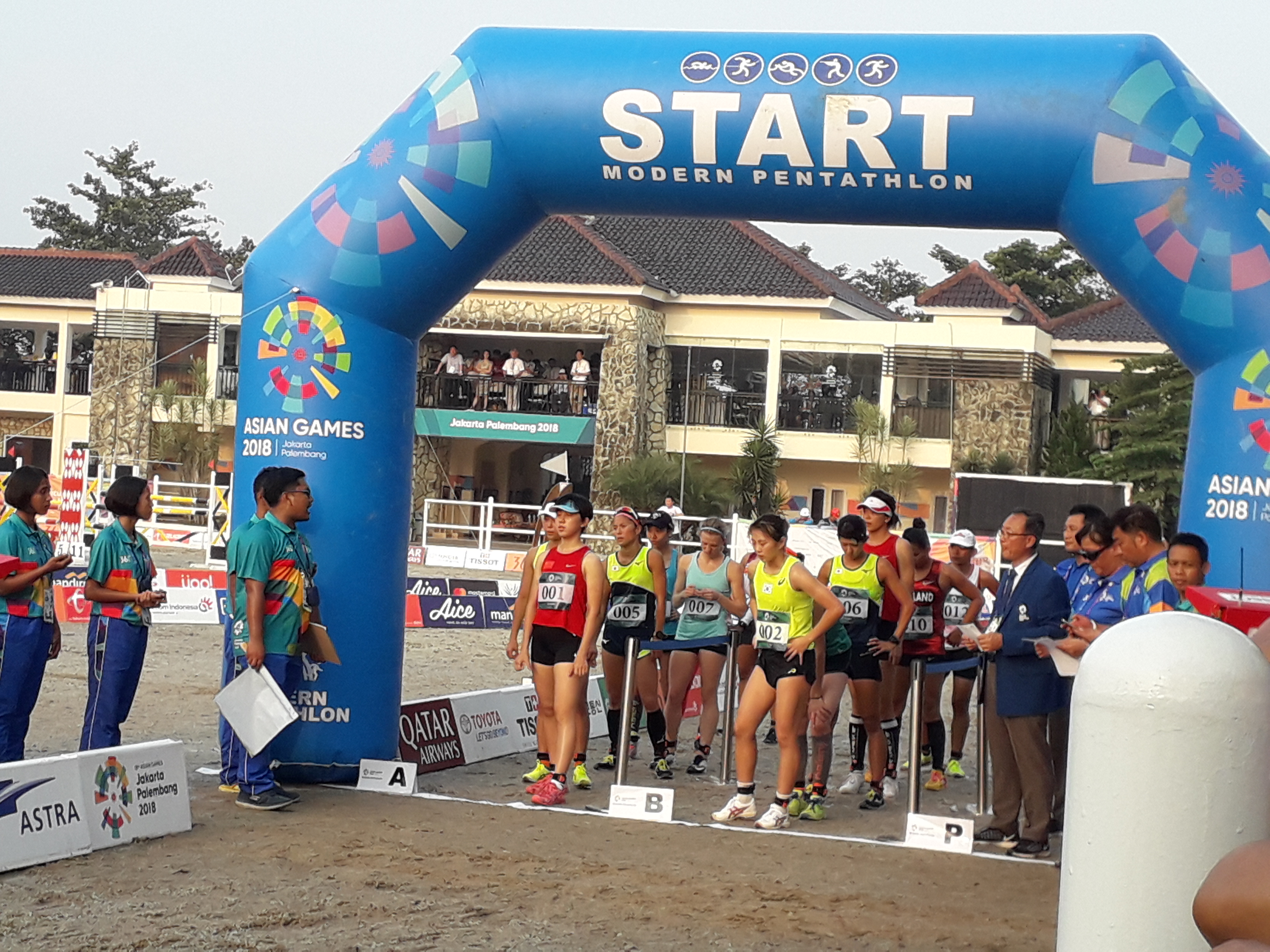 Laser-run stage of Womens Single Modern Pentathlon Asian Games 2018 on August 31st, 2018 at Adria Pratama Mulya (APM) Equestrian Centre, Tigaraksa, Banten, Indonesia.